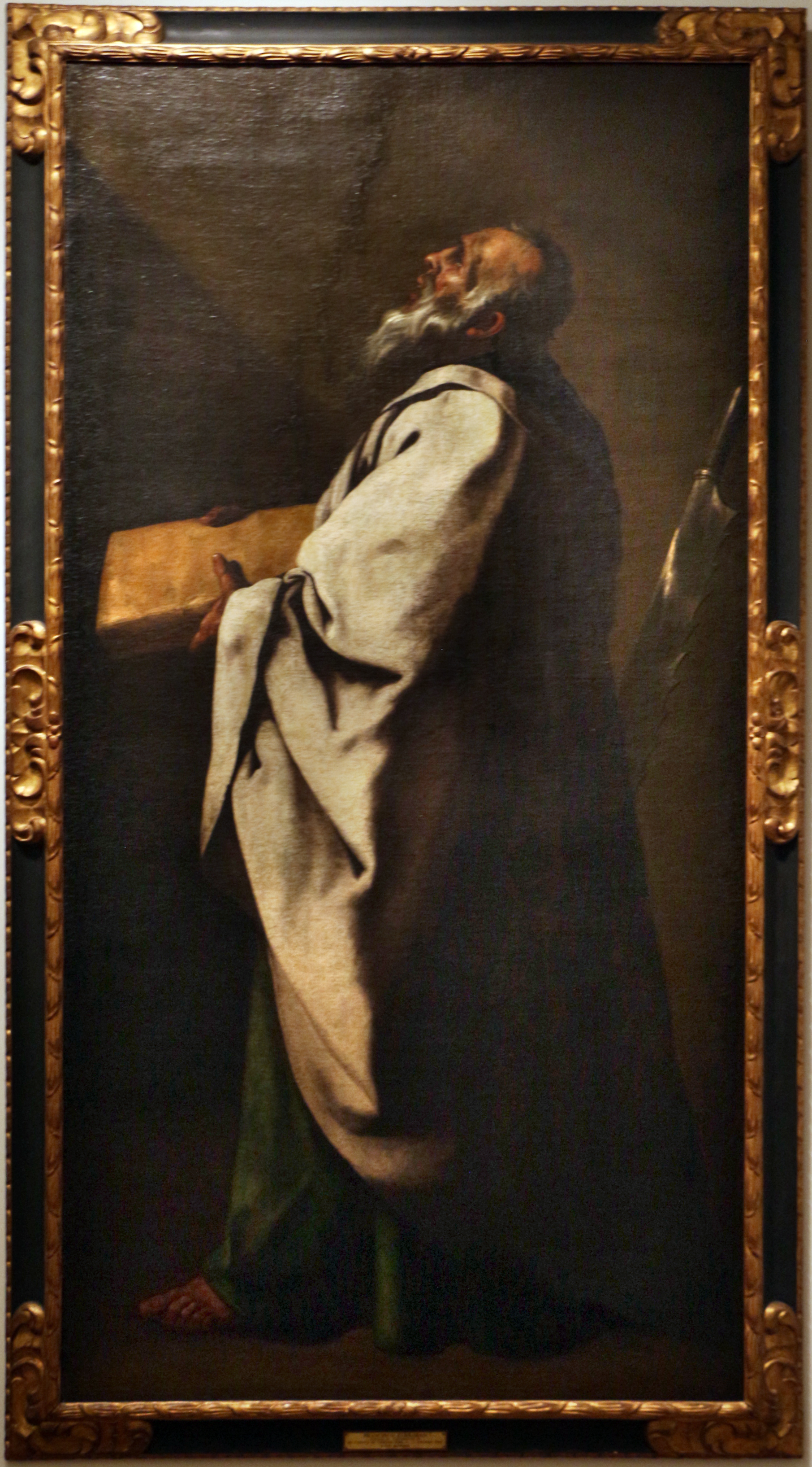 Spanish paintings in the Museu Nacional de Arte Antiga